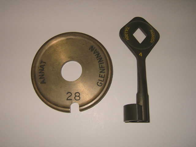 Original digital image Signalhead 23:00, 21 January 2007 (UTC)